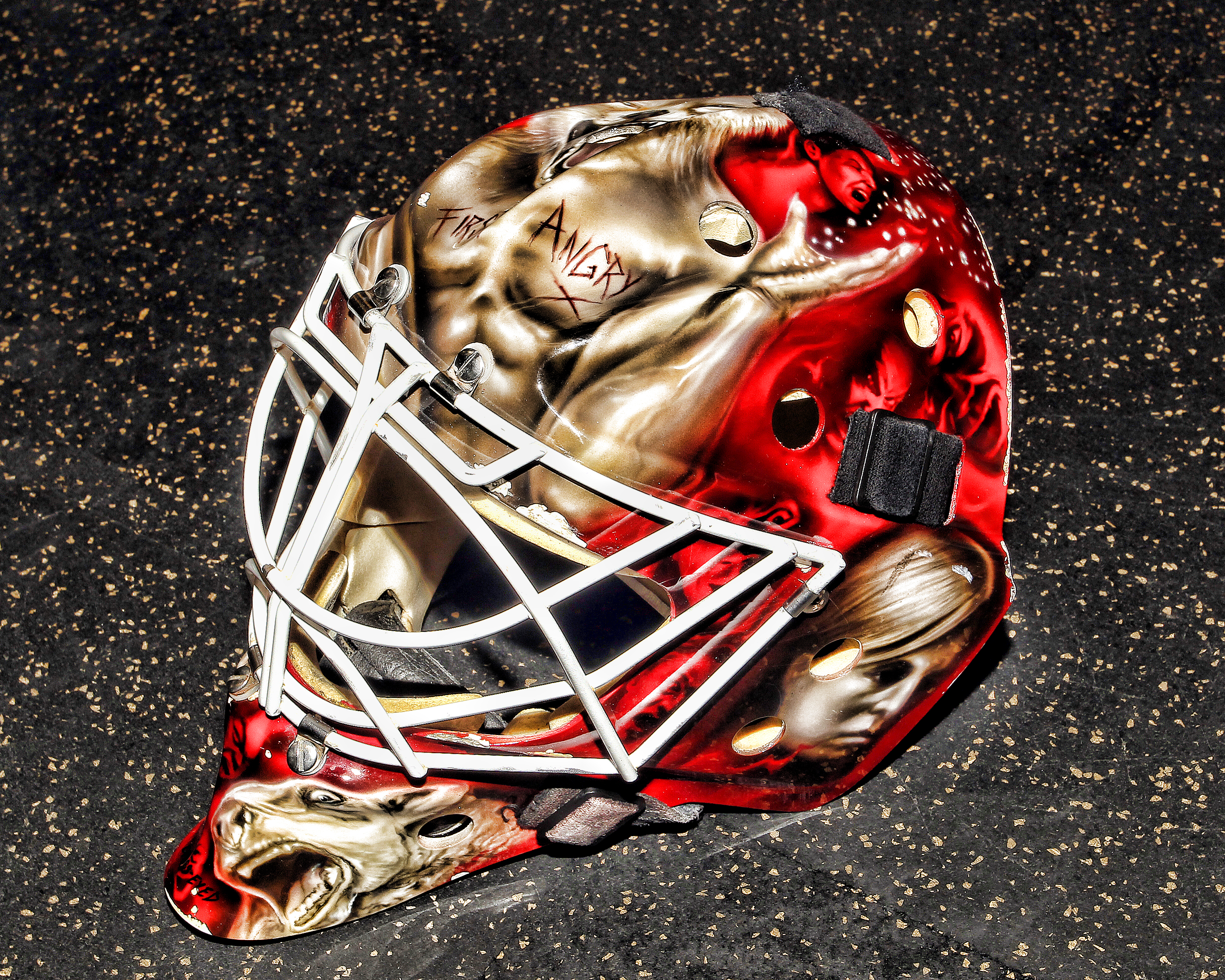 Alan Sullivan - Photographer American Hockey League (AHL). 2013 All-Star Skills Competition. Taken on January 27, 2013.